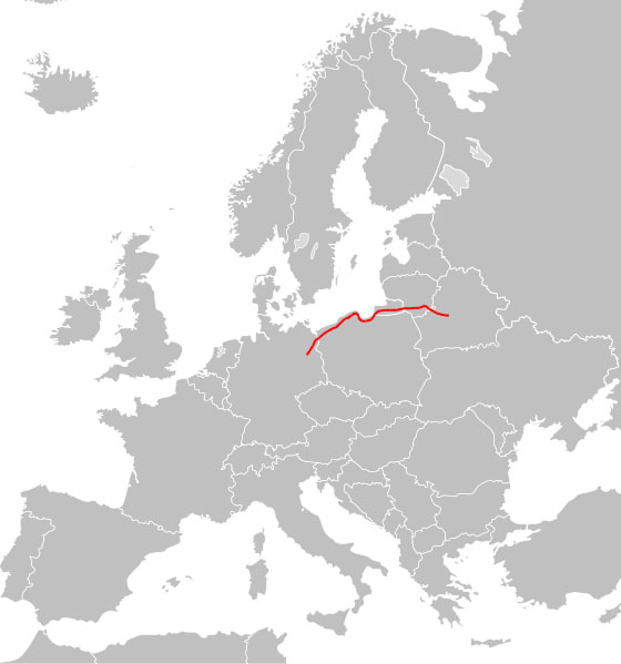 The European route 28